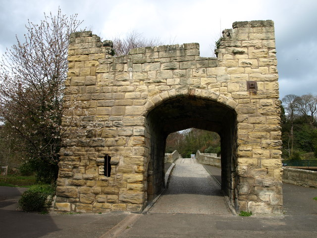 Portal to old bridge, Warkworth